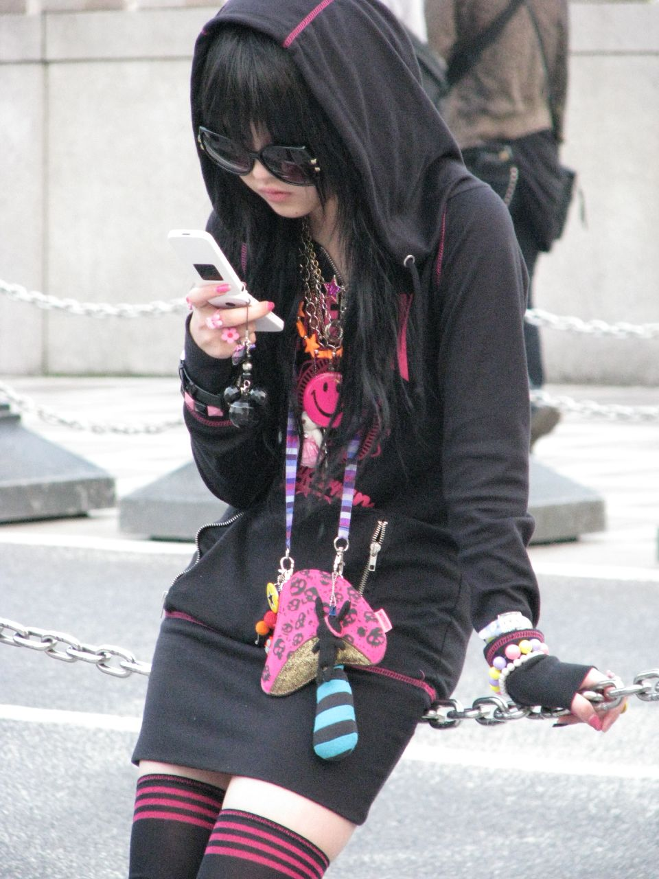 A young woman with her mobile phone in Harajuku, Tokyo, Japan.